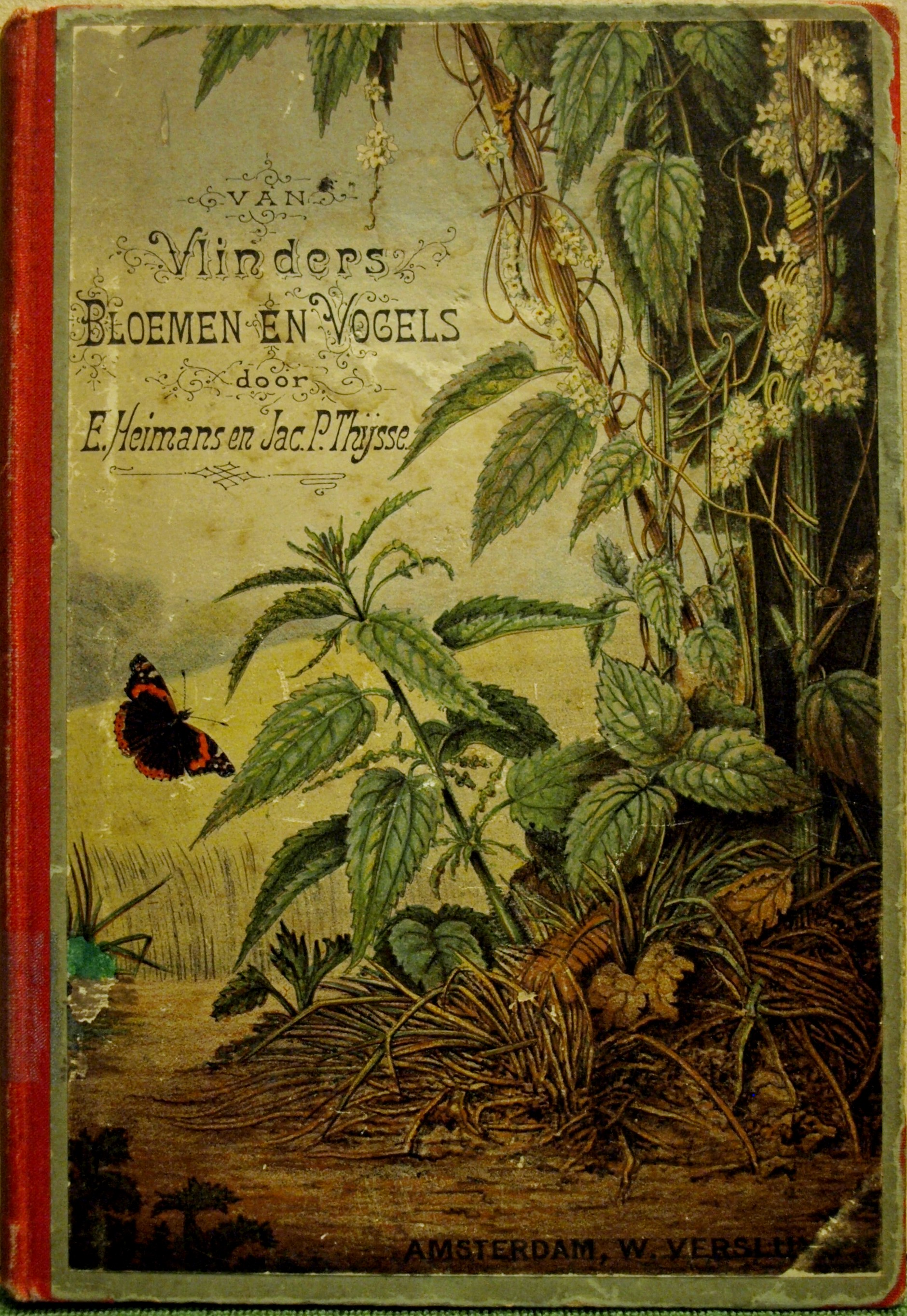 Cover of Van vlinders, bloemen en vogels : Langs dijken en wegen. (1st. ed.)